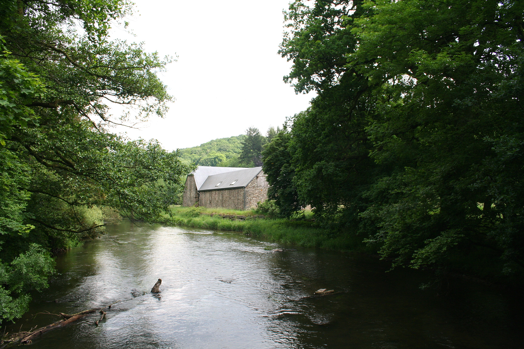 Daverdisse (Belgium), the Lesse river and the Mohimont farm where the prince Pierre Bonaparte has lived (1838-1848).